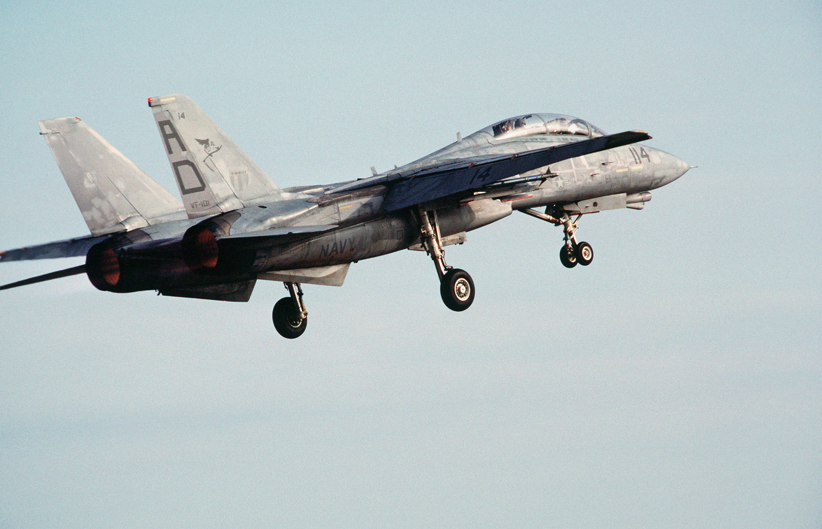 An F-14A Tomcat aircraft from Fighter Squadron 101 (VF-101) gains altitude after takeoff, its landing gear still down. VF-101 provides F-14 readiness training for Atlantic fleet units. Location: NAVAL AIR STATION, OCEANA, VIRGINIA (VA) UNITED STATES OF AMERICA (USA)